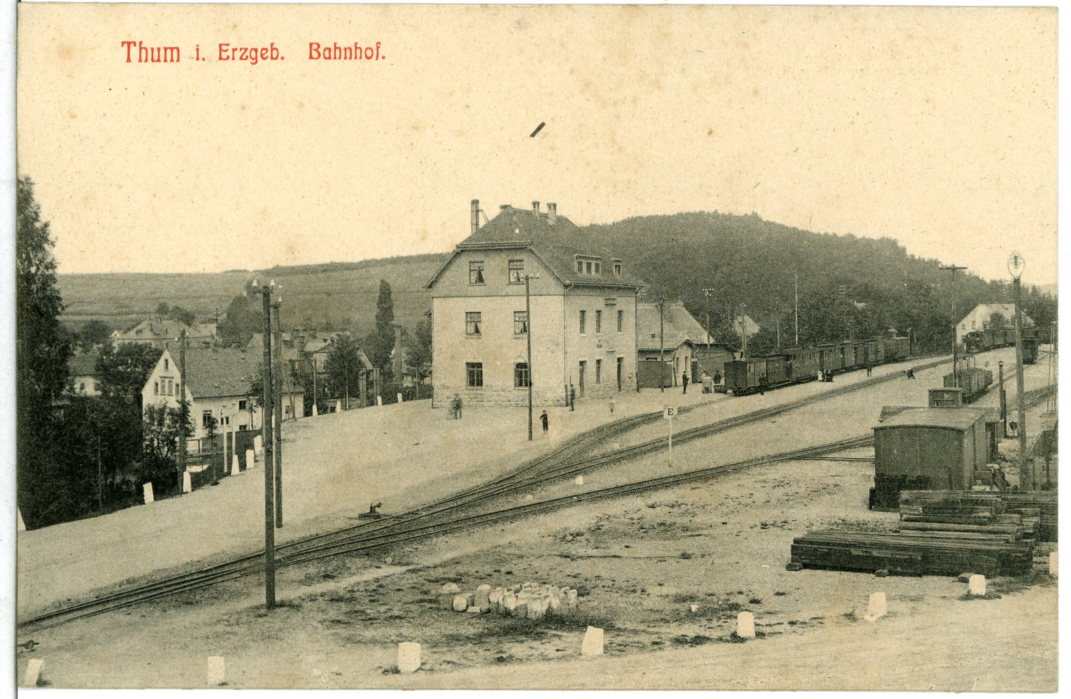 This postcard is from publisher Brück & Sohn in Meißen ( This postcard has a unique number 11010 and is available in a higher resolution at the publisher. This images was uploaded in a cooperation project between Wikipedians and the publisher.